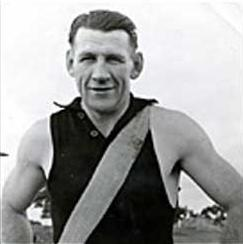 Australian rules footballer Jack Dyer (born 1913)